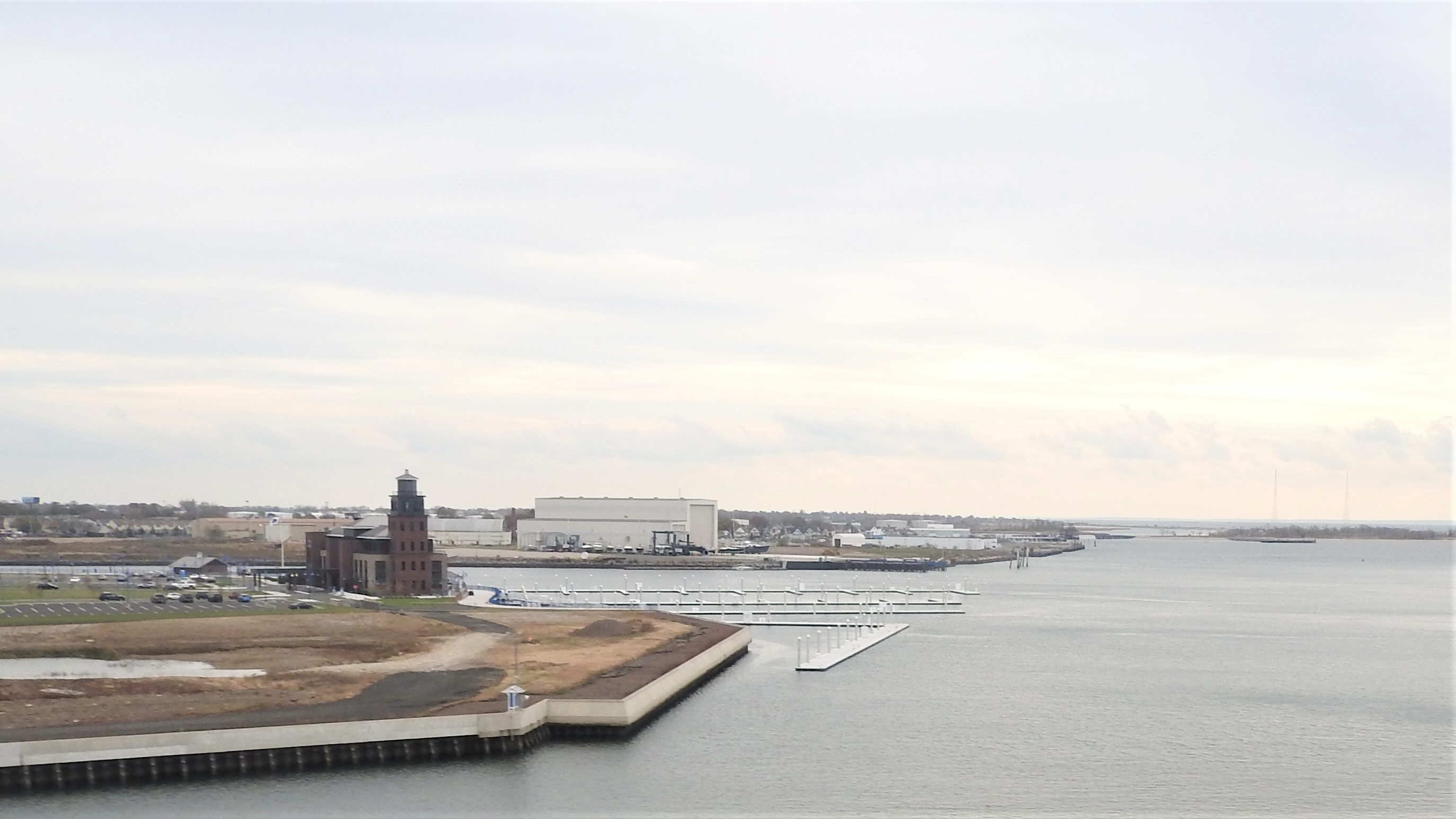 Looking south from a passing bus on I95, at the river and eastern Bridgeport.